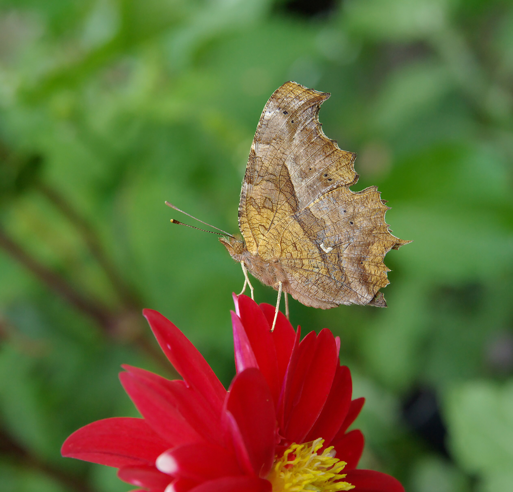 Polygonia c-aureum on Dahlia